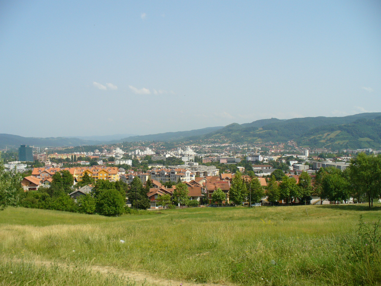 Panoramic view of Banja Luka, Bosnia and Herzegovina